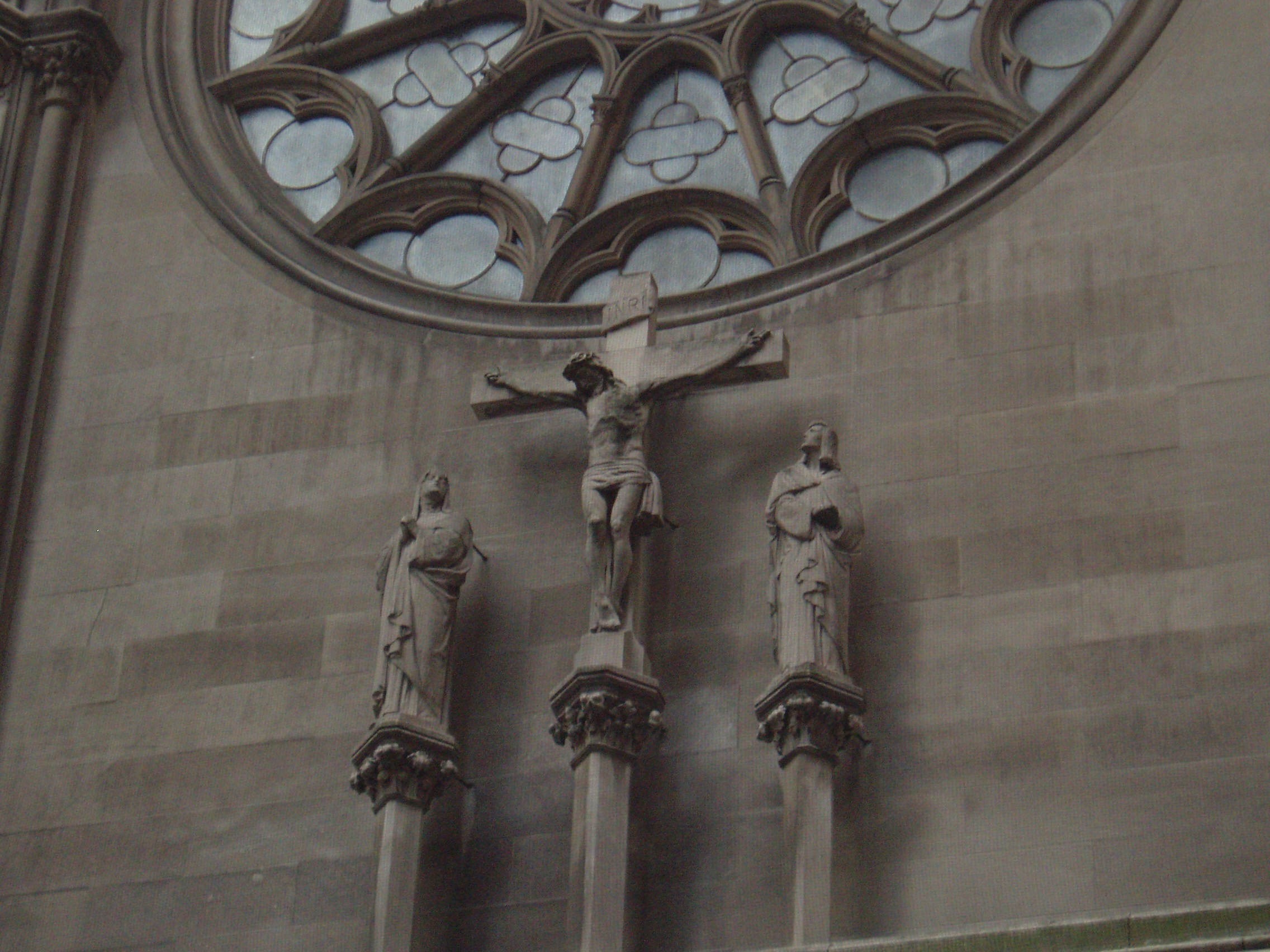 A cross on the exterior of the Church of St. Mary the Virgin in New York City